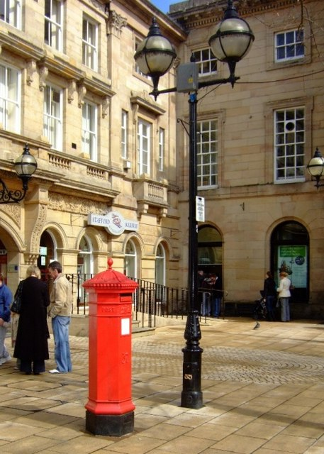 Stafford Market Square The Victorian Pillarbox is genuine, if unused. The building behind it is the original site of the William Salt Library.